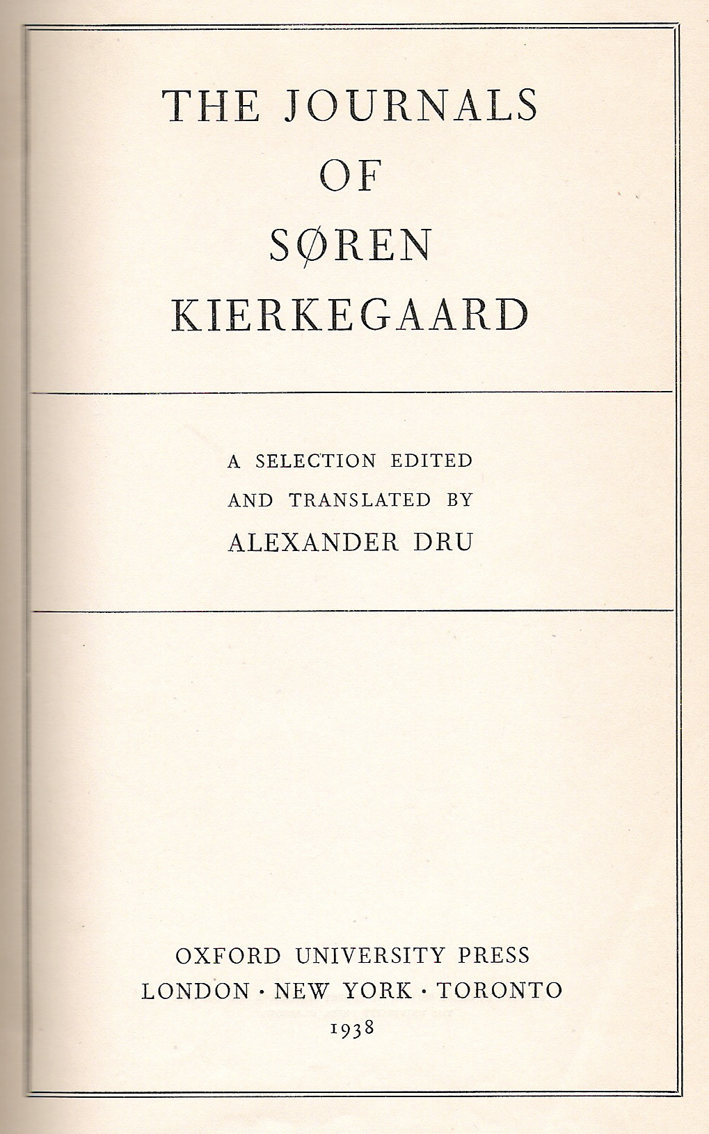 The cover of the first English edition of The Journals, edited by Alexander Dru in 1938.